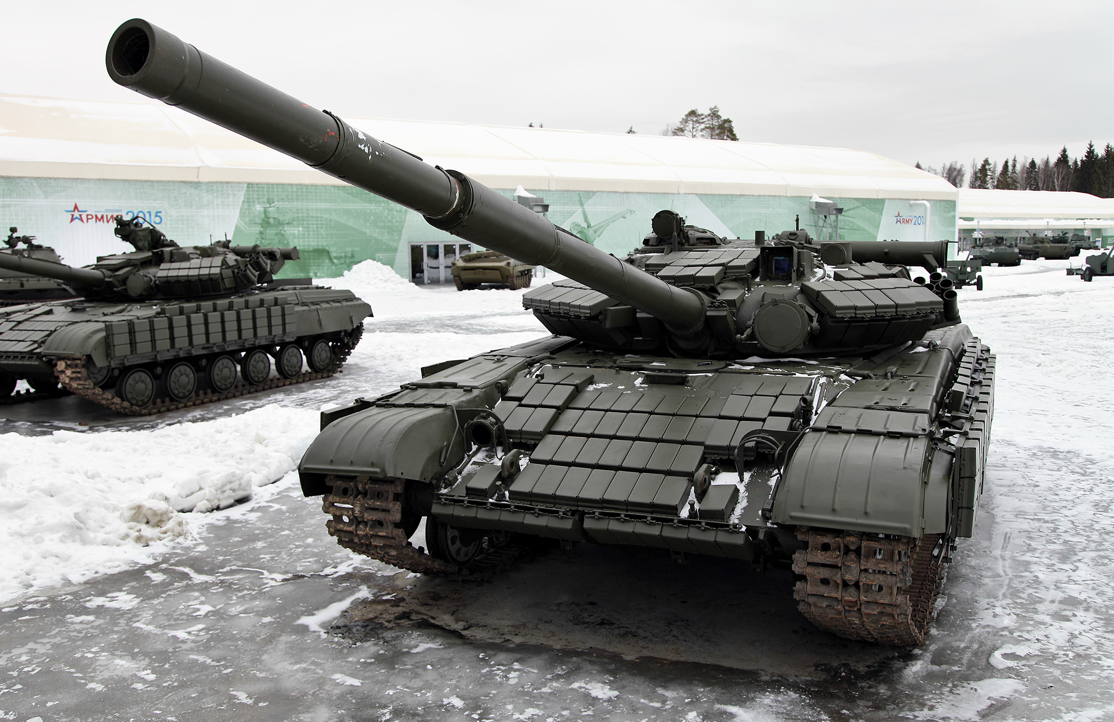 T-64BVK commander version